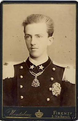 Photograph by the "Heirs of Luigi Montabone" (18..-1877) - Victor Emmanuel III of Italy (1869-1947), as Crown Prince of the Kingdom of Italy.